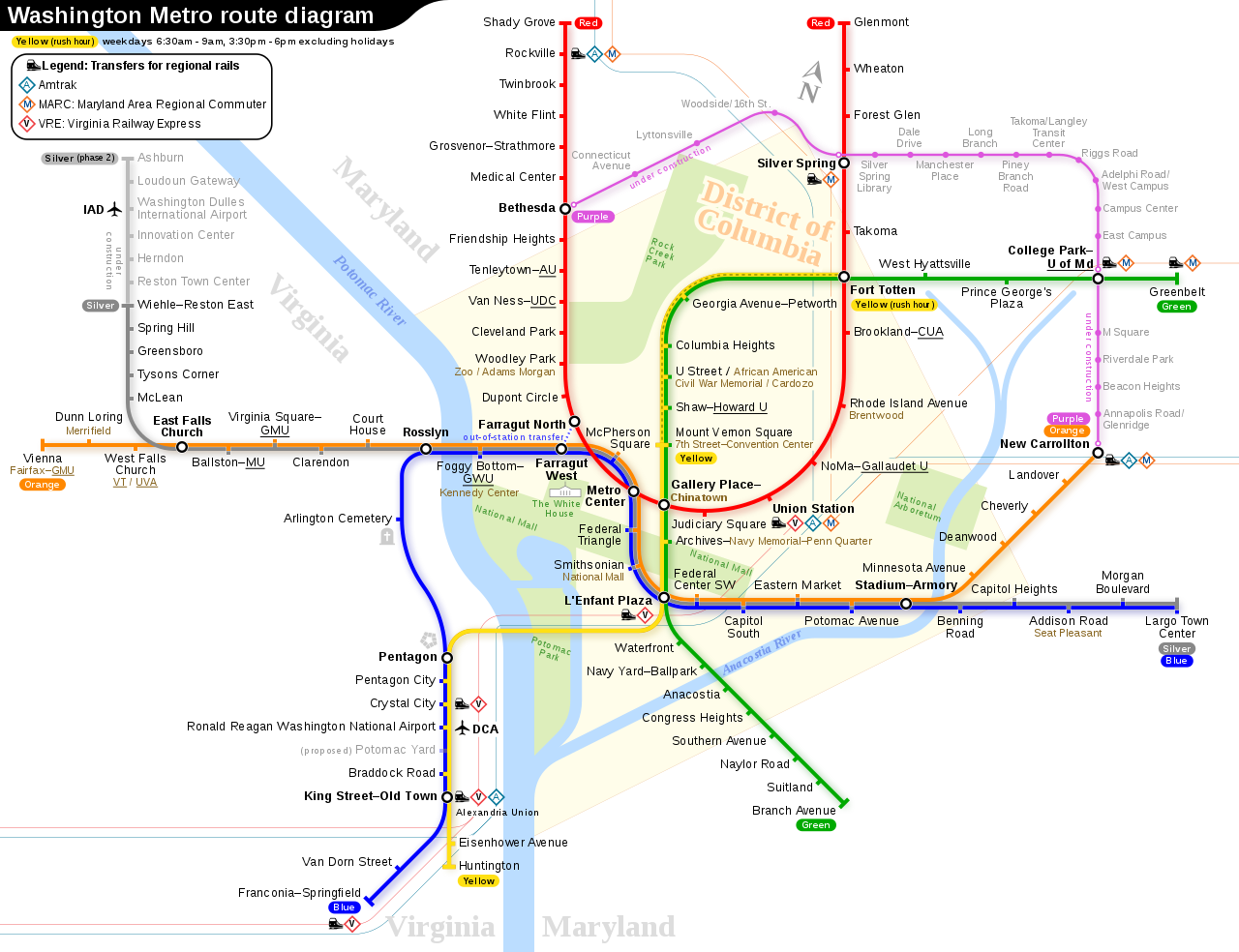 This is a diagram showing the Washington Metro with the planned purple line.